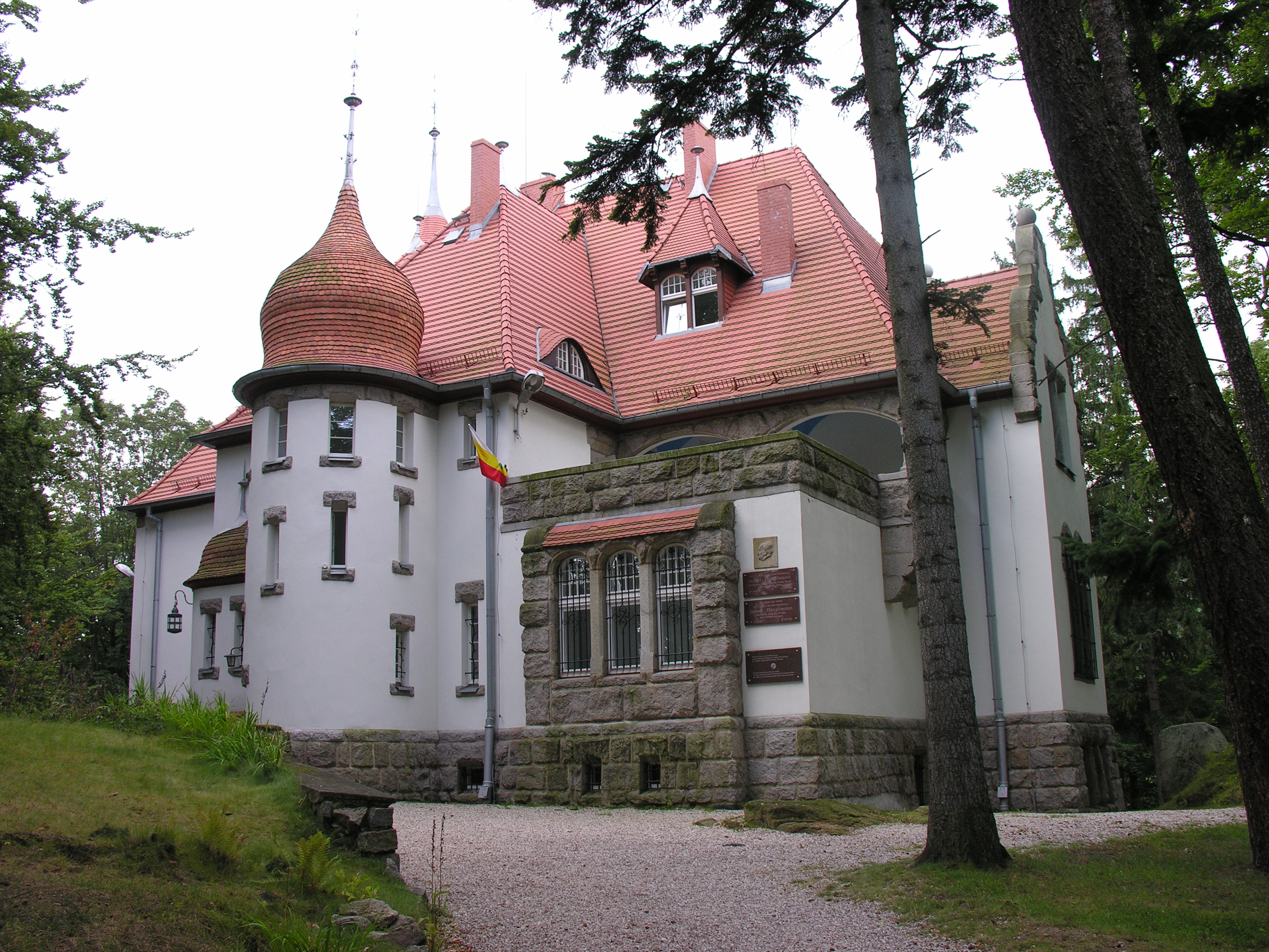 House of Gerhart Hauptmann (Haus Wiesenstein) at Jagniątków (German: Agnetendorf)